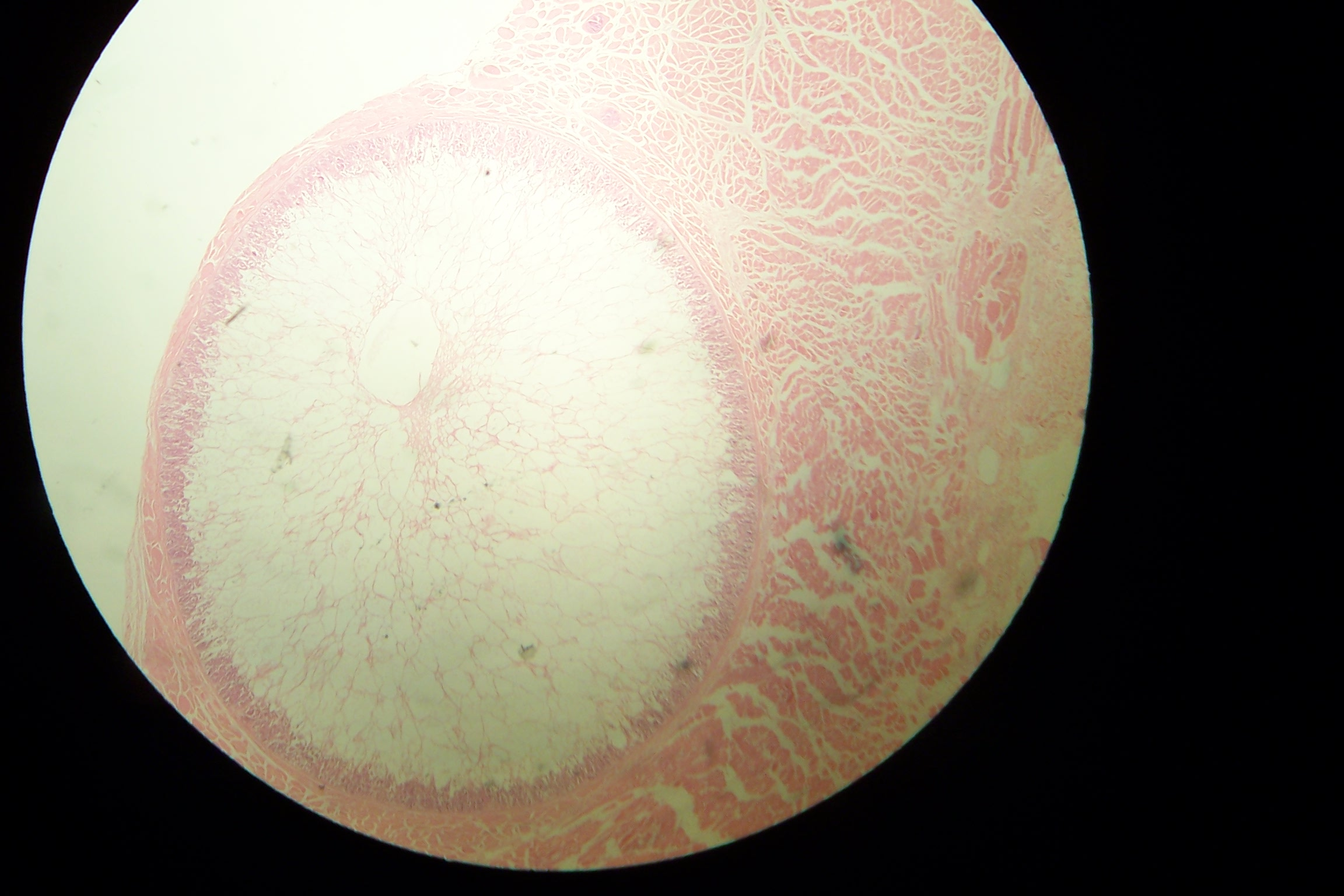 Sarcocystis in a sheep oesophagus. Photograph taken from teaching slides at the University of Edinburgh. The cyst is approximately 4mm across.